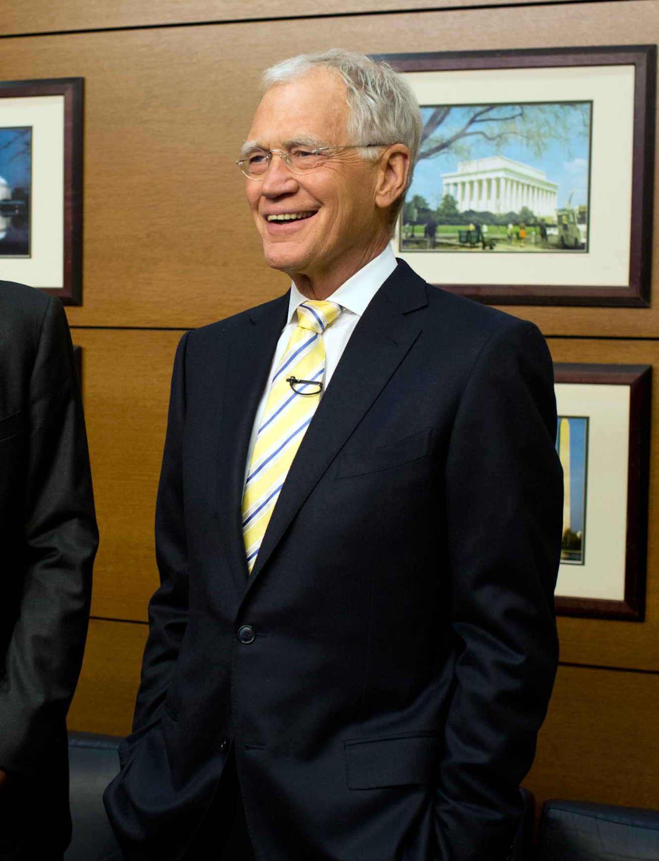 President Barack Obama talks backstage with David Letterman for the Late Show with David Letterman in the Ed Sullivan Theater in New York, N.Y. May 4, 2015. (Official White House photo by Pete Souza)